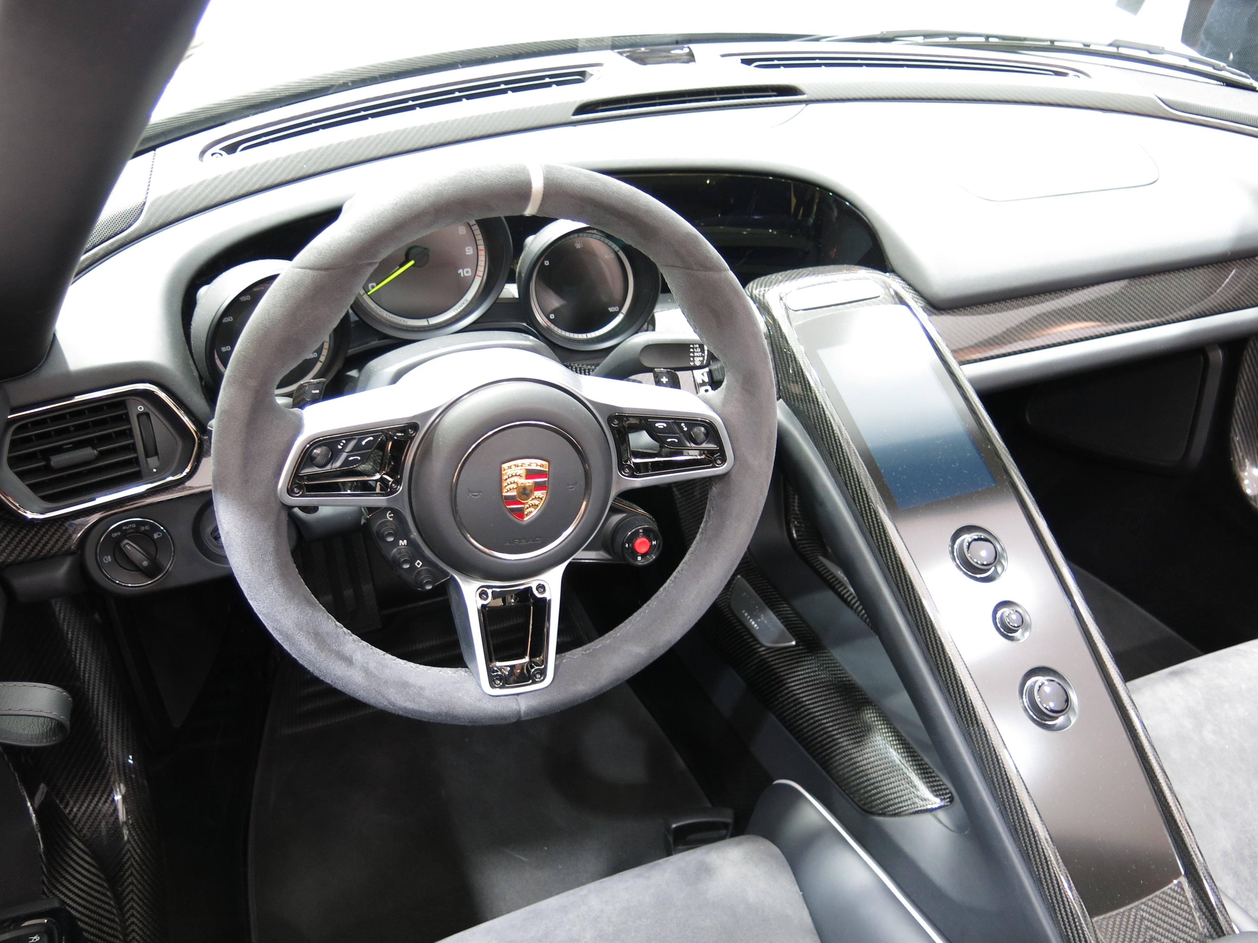 Geneva Motor Show 2015 (photo taken on the first press day)